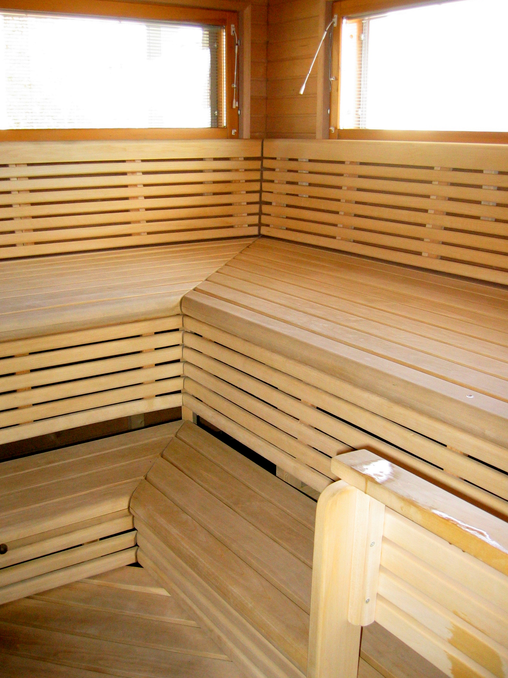 Benches in a Finnish sauna (timber is aspen).